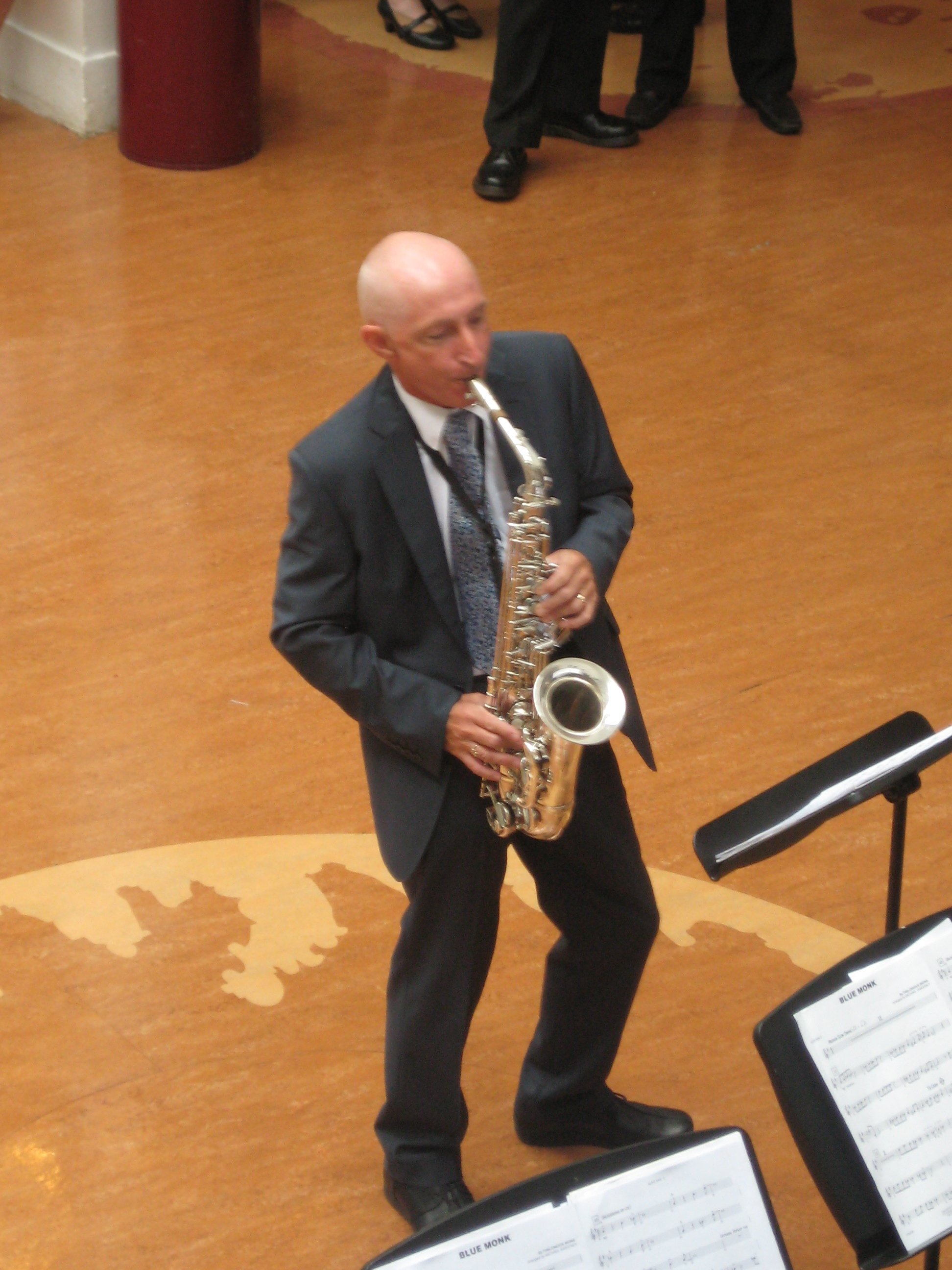 Neil Carter of UFO, plays Alto Sax in the foyer at the Brighton Dome, Brighton, United Kingdom.